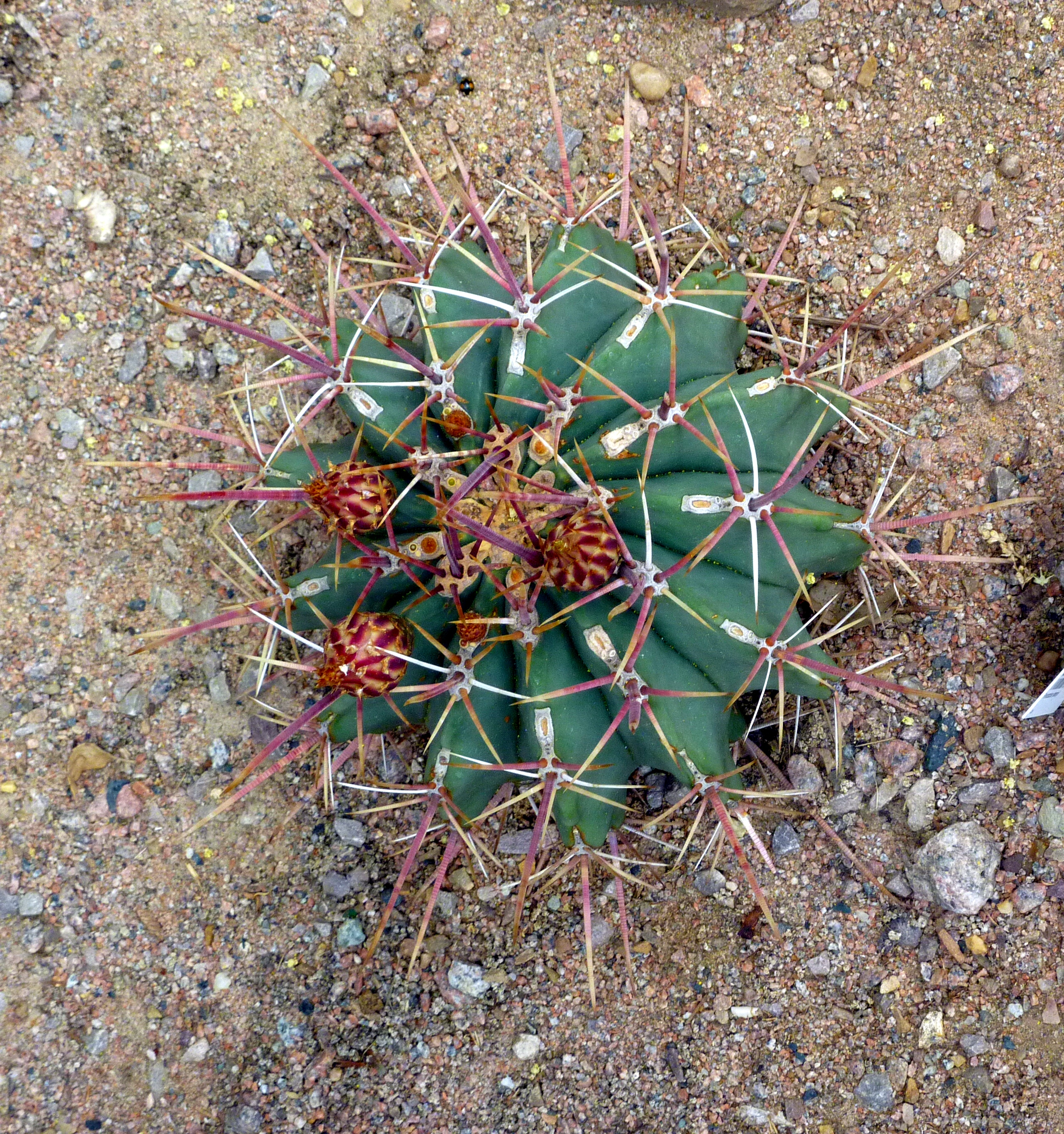 Taken in the Cambridge University Botanic Garden